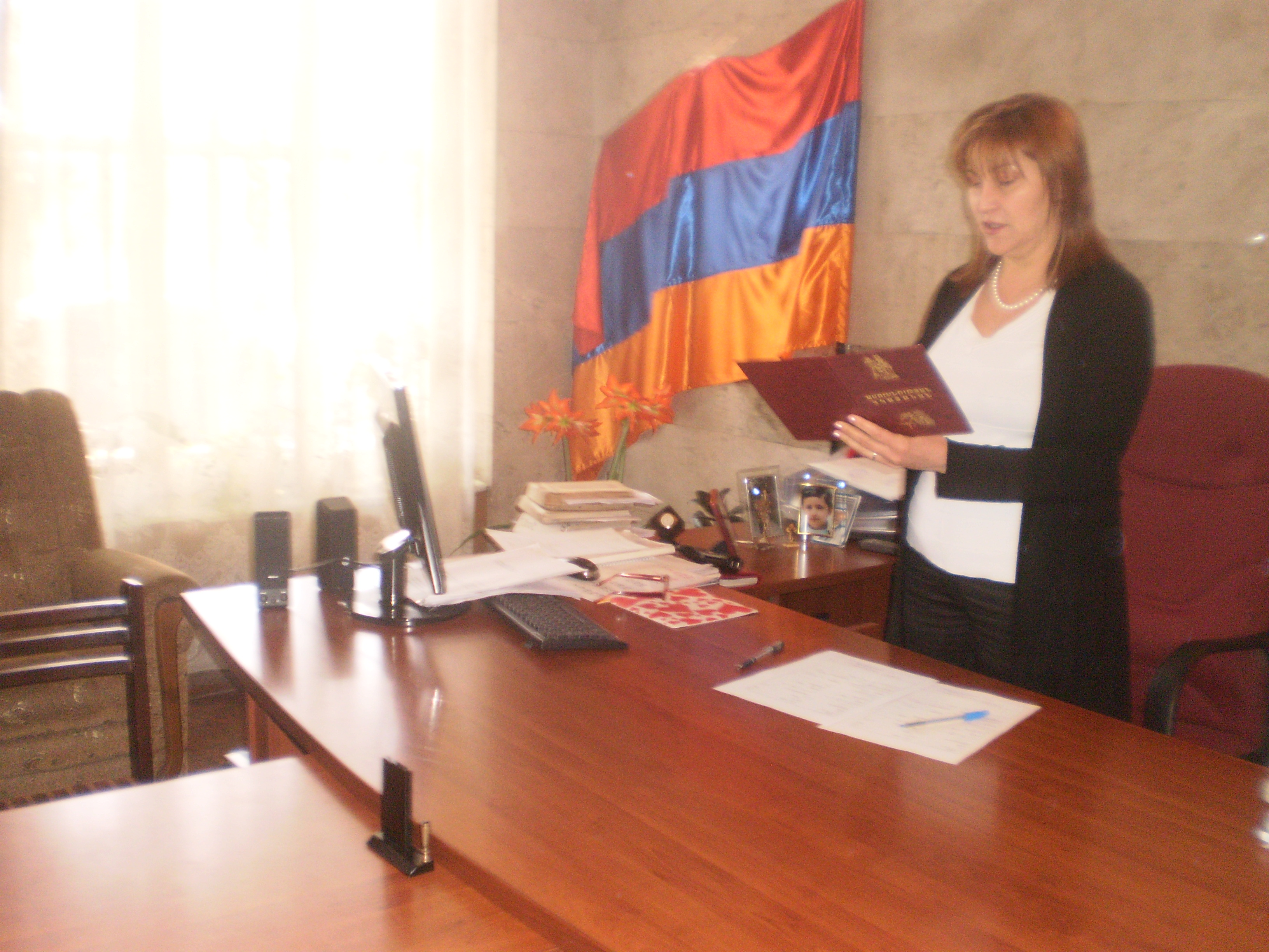 Civil wedding in Armenia